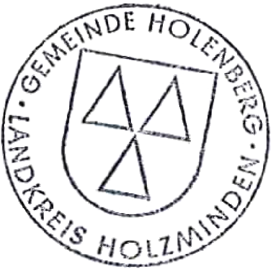 seal of the municpality of Holenberg